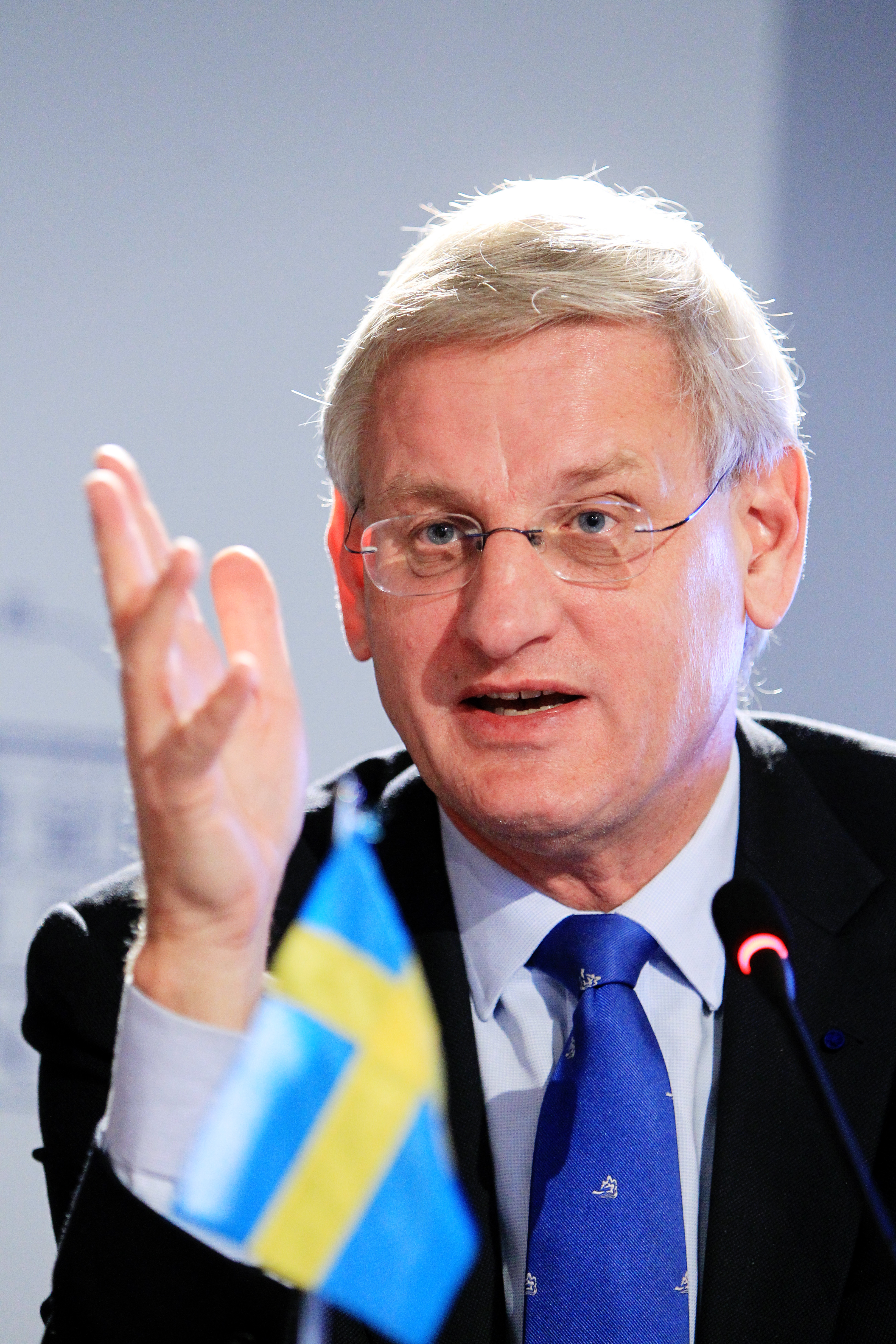 Sveriges utrikesminister Carl Bildt under Nordiska Rådets session i Reykjavik på Island 2010-11-03. Keywords: Carl Bildt